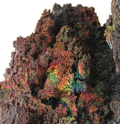 Malachite, Goethite Locality: Novo Horizonte, Bahia, Northeast Region, Brazil (Locality at ) Size: 11.8 x 11.4 x 5.5 cm. This big, rich specimen of goethite is from Brazil, not a usual locality for goethites. There is a huge array of colors on this specimen, accented by blebs of green malachite.